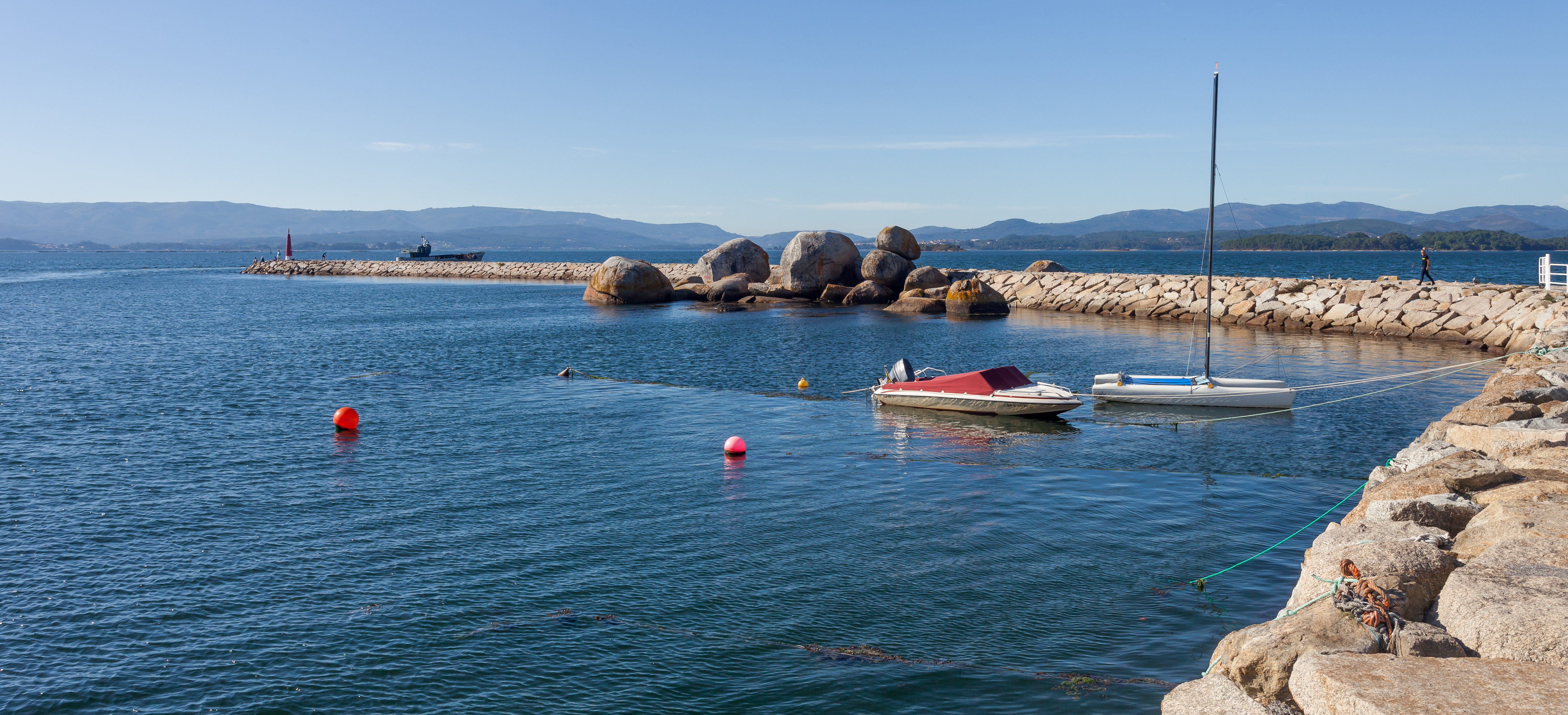 Port of Vilaxoán, Sobrán (San Martiño), Vilagarcía de Arousa, Galicia (Spain).